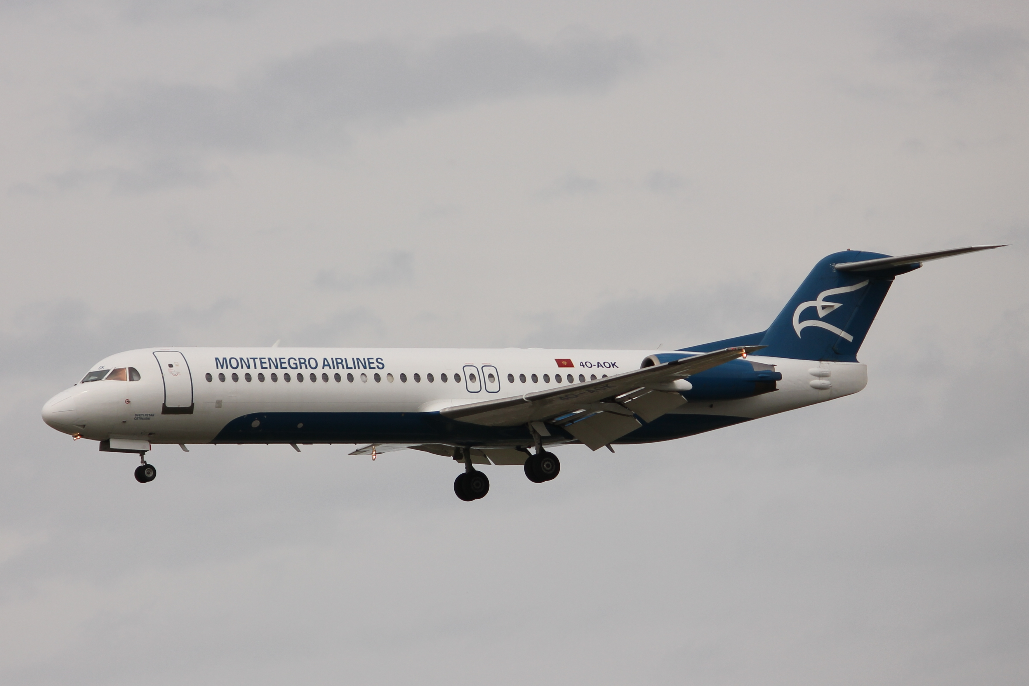 A Fokker 100 of Montenegro Airlines landing at Frankfurt Airport